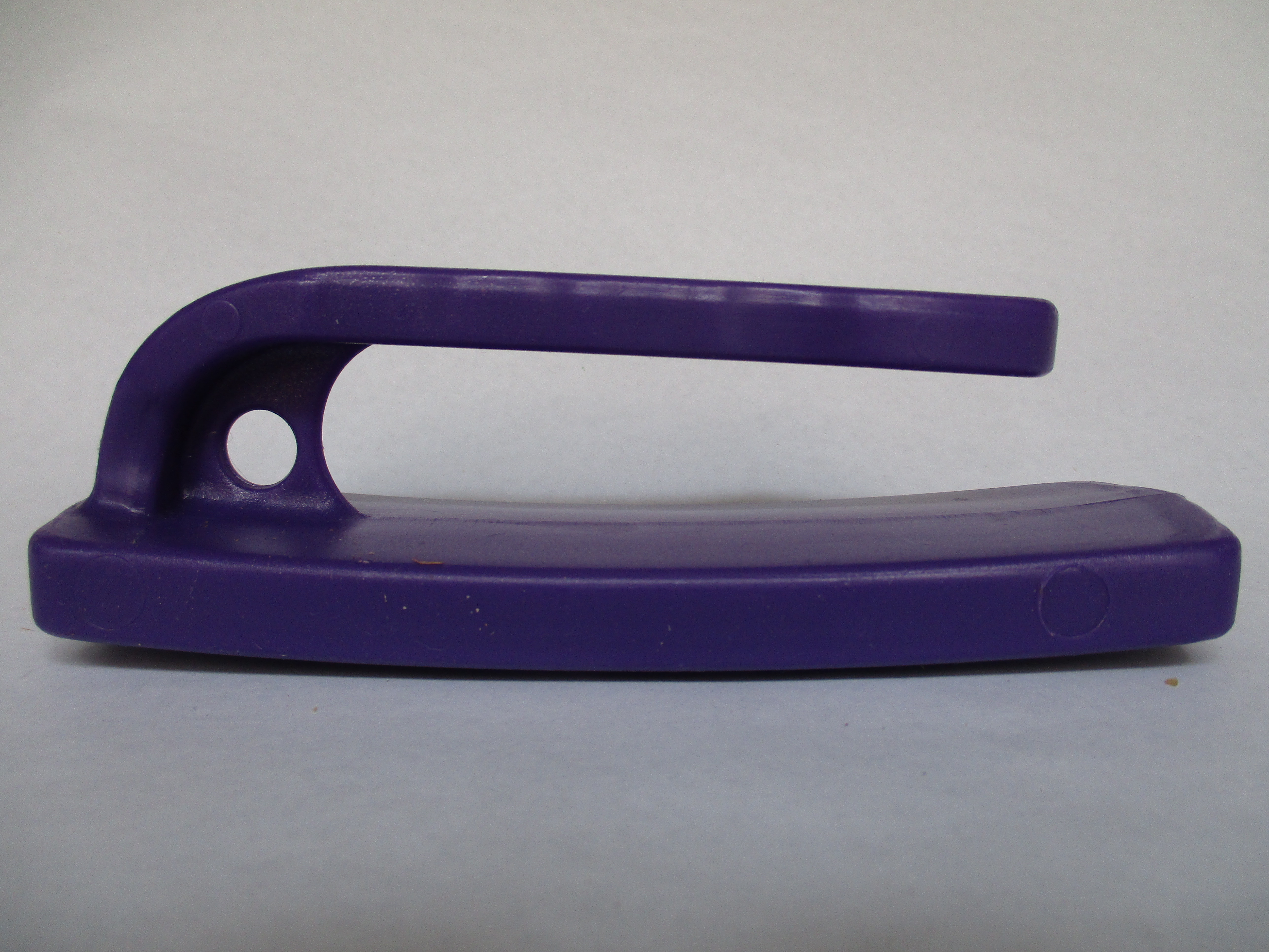 Polypropylene brush block for washing brush, before drilling and tufting, produced by injection molding (Maine Brosserie)